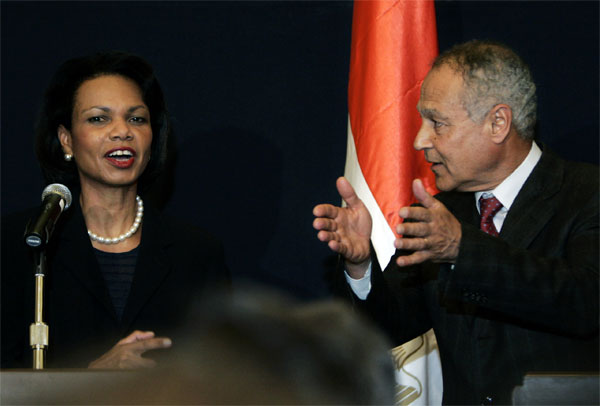 Secretary Condoleezza Rice with Egyptian Foreign Minister Ahmed Abul Gheit in Cairo